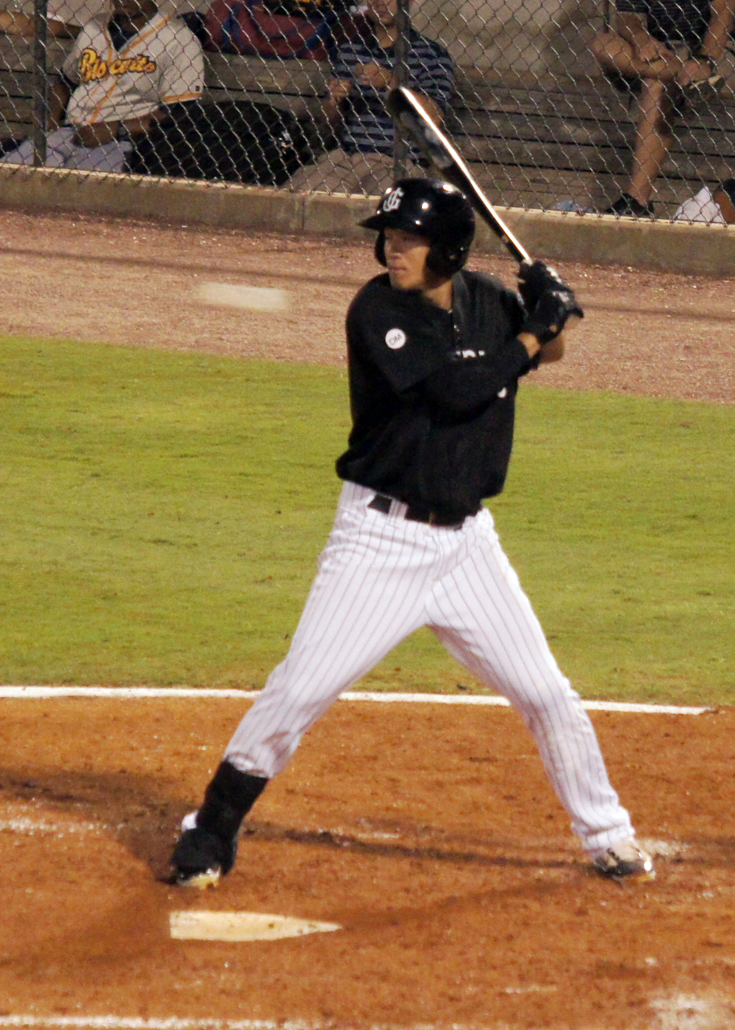 Jackson (TN) Generals minor league baseball (Seattle Mariners affiliate) #25 Chih-Hsien Chiang